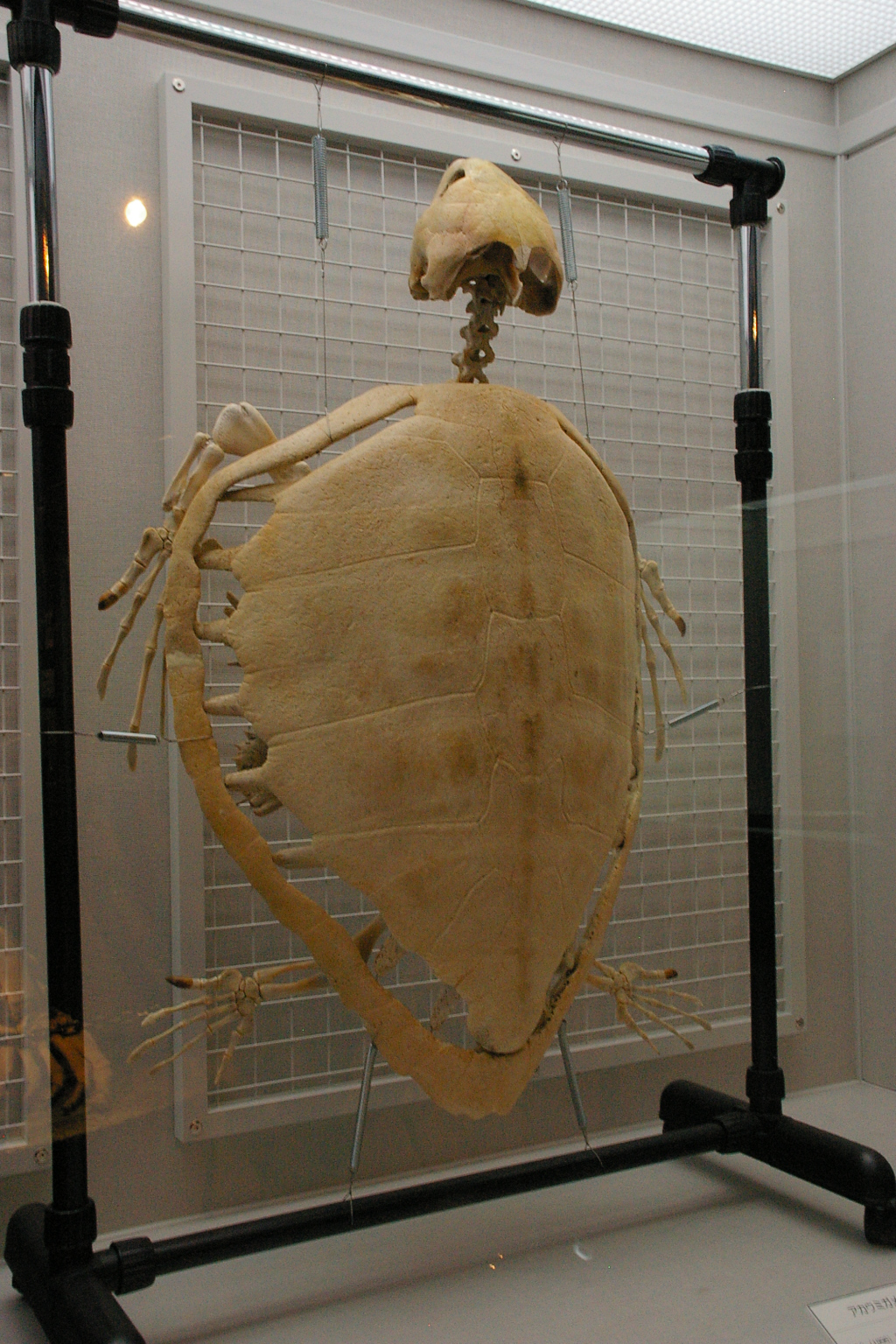 Caretta caretta skeletal preparations in Otaru synthesis museum.